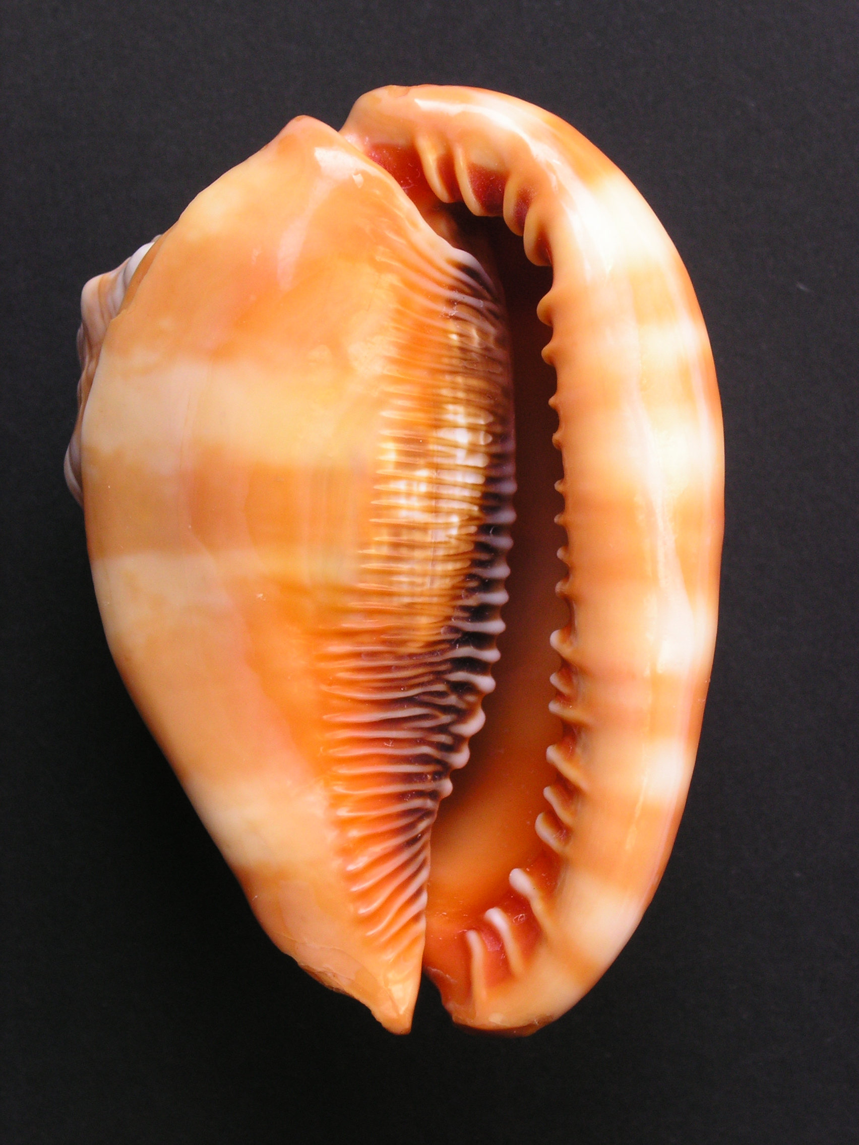 Cypraecassis rufa - ventral view Licence: self-made photo, May 2005